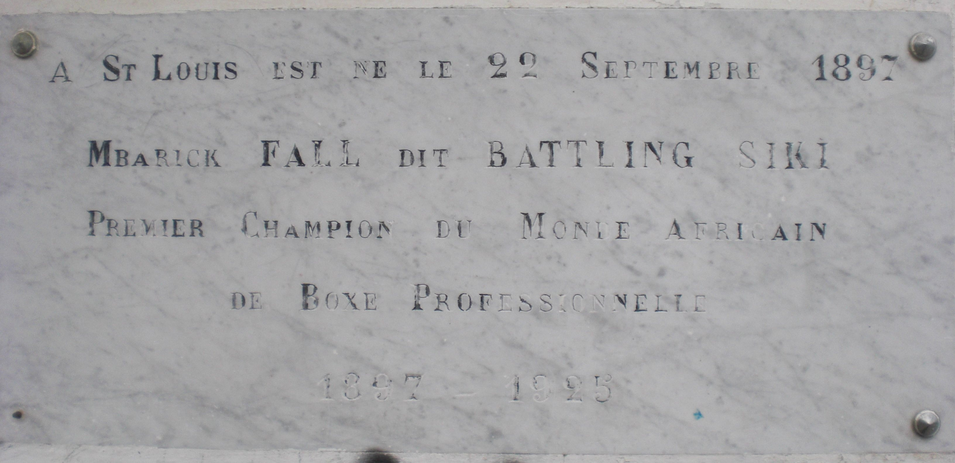 Commemorative plaque of the boxer Battling Siki (Louis Mbarick Fall) in Saint-Louis, Senegal